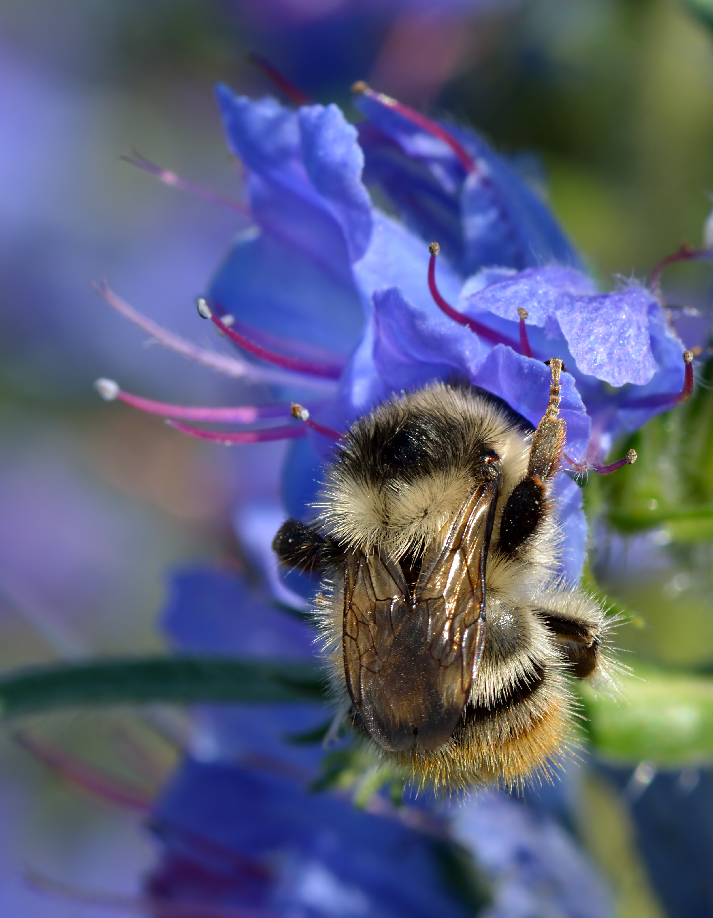 Shrill carder bee queen (Bombus sylvarum) on the blueweed (Echium vulgare). Keila, Northwestern Estonia.